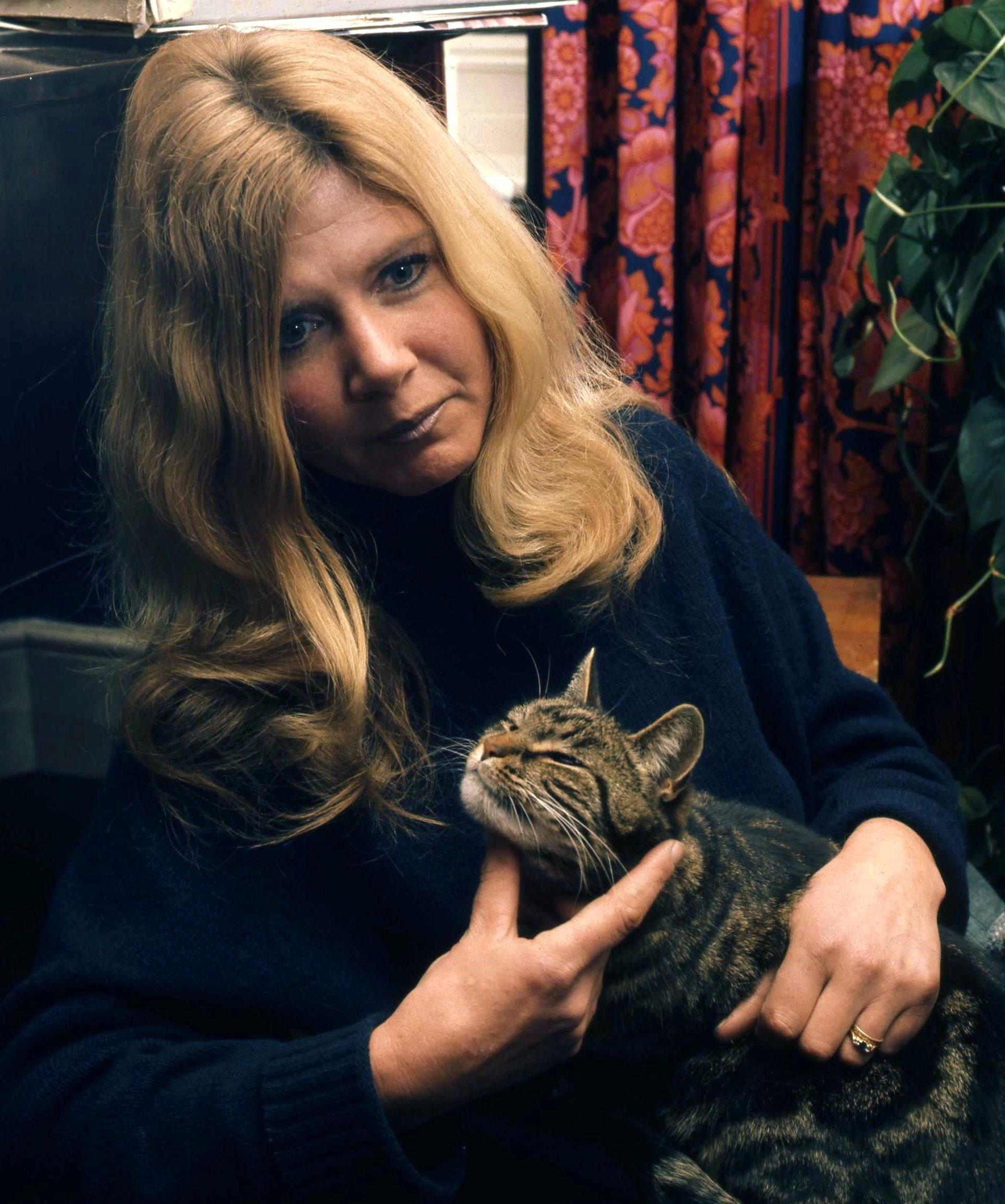 portrait of Jilly Cooper